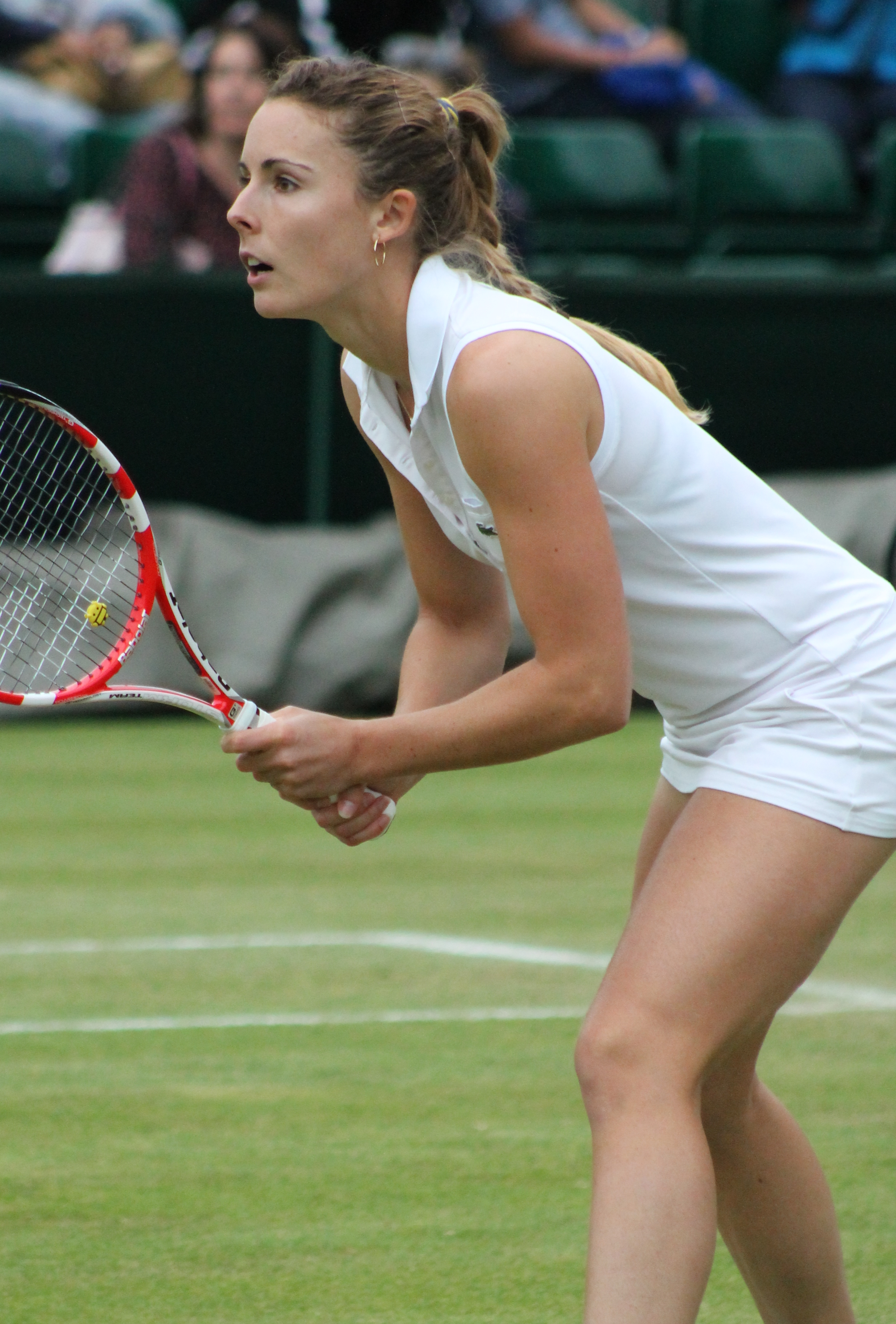 Cornet WM14 (3)